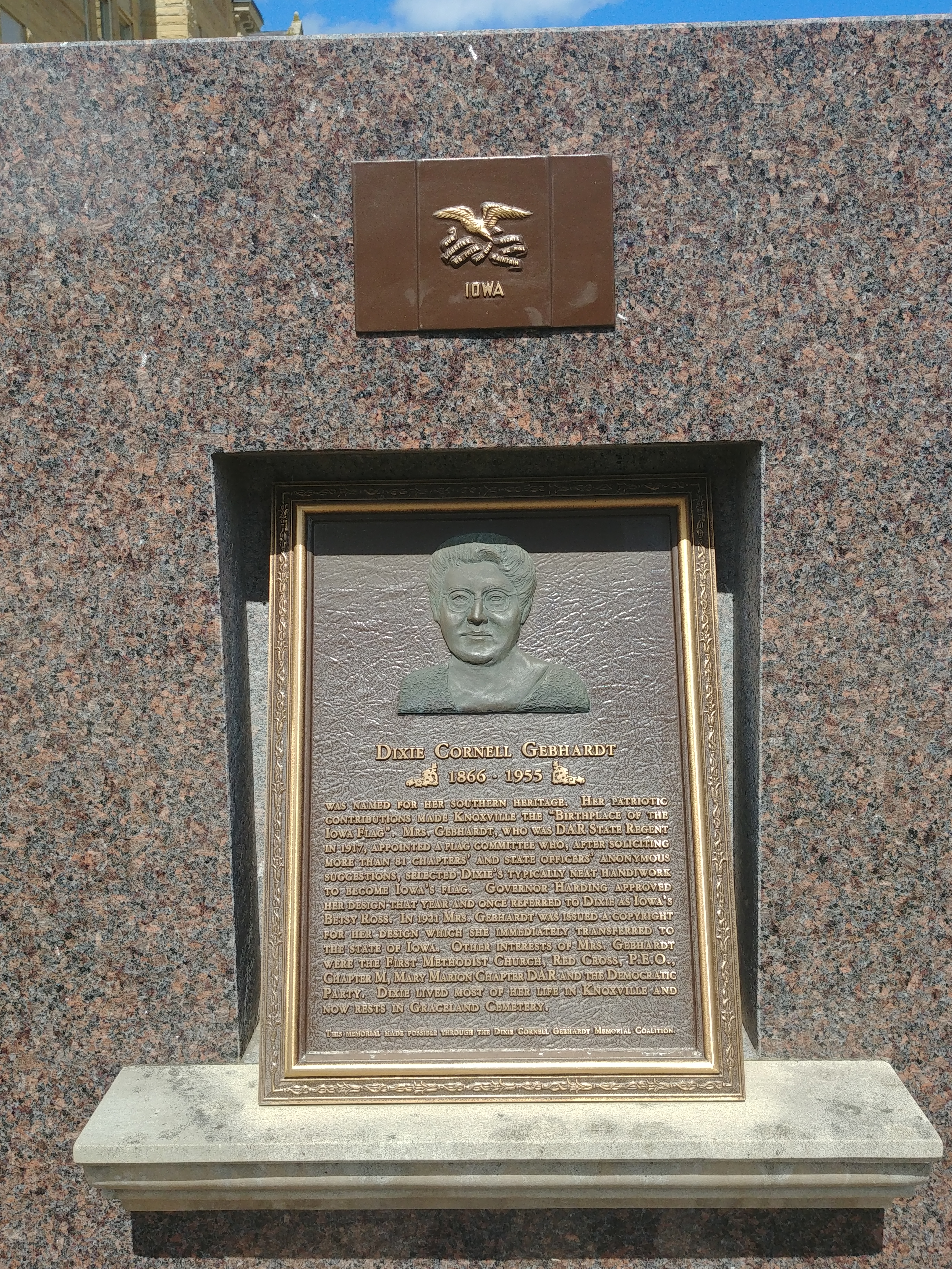 Dixie's biography